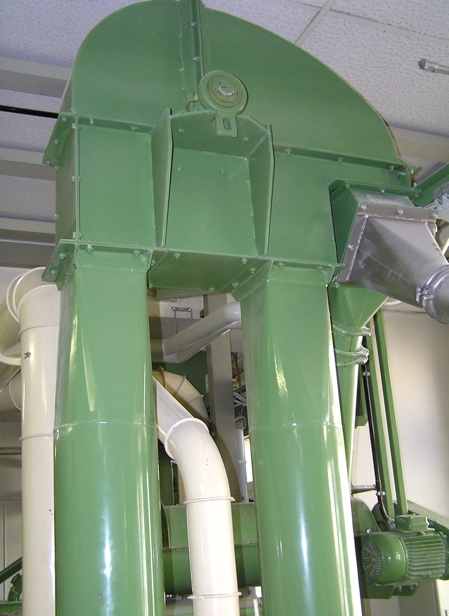 Elevatorhead with discharge section